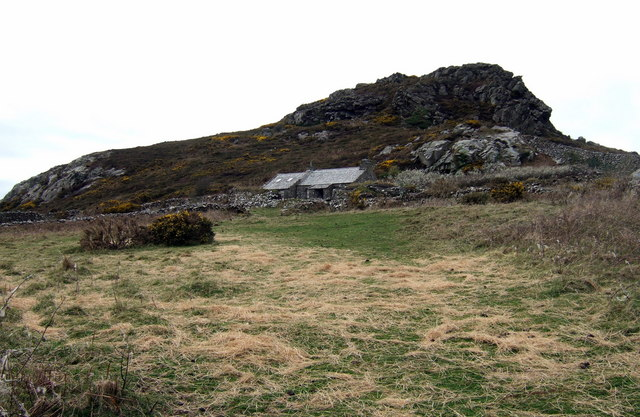 John Piper's cottage on Garn Fawr Crouching under the fortified crags of Garn Fawr, this cottage was used as a retreat and studio by the artist John Piper (1903-1992) who discovered Pembrokeshire in the 1930s through his wife Myfanwy Evans. He made many paintings and prints of local scenes. His version of Garn Fawr can be viewed here